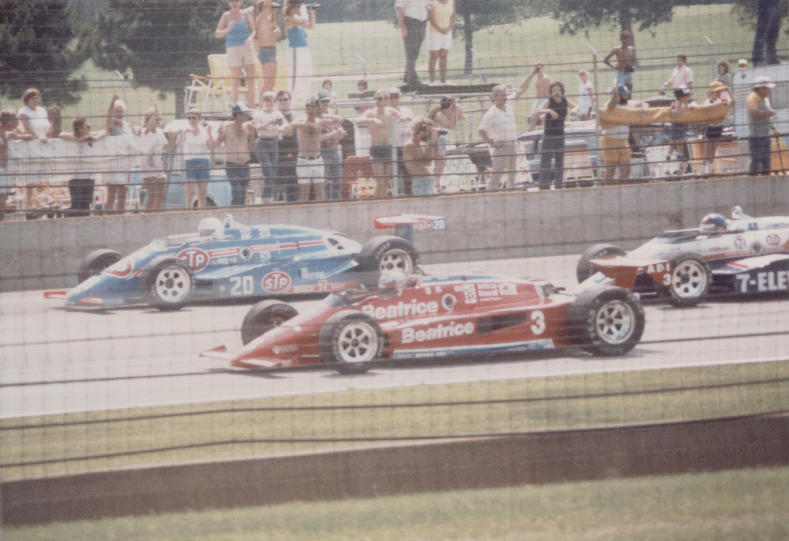 Second row for the 1985 Indianapolis 500. (L to R) Don Whittington, Emerson Fittipaldi, Mario Andretti